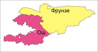 Map of Kurghiz SSR in 1967